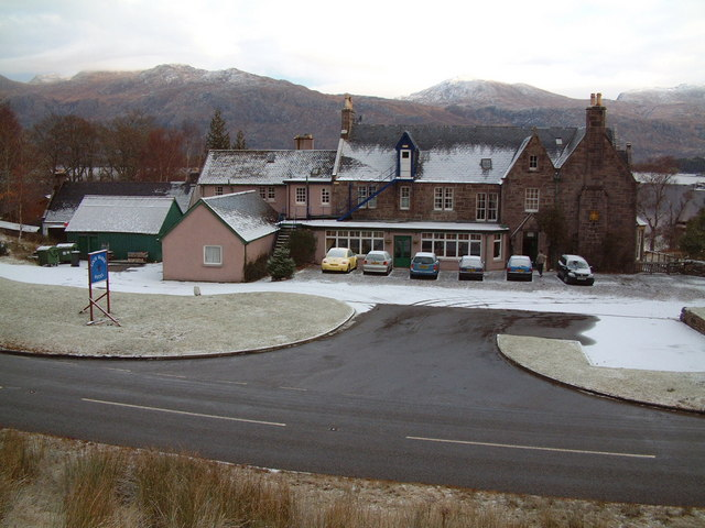 Loch Maree Hotel from road